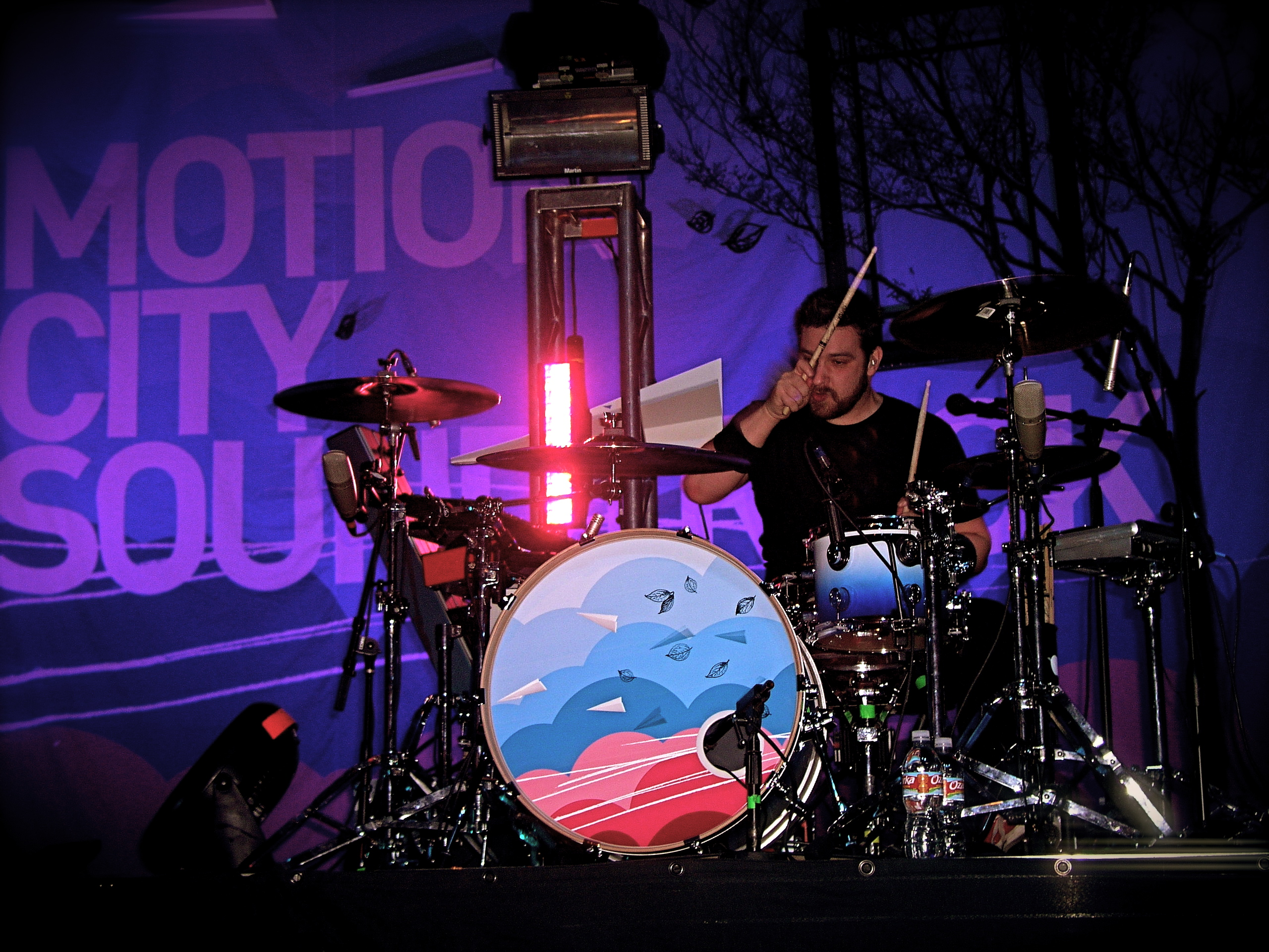 Motion City Soundtrack's Tony Thaxton performing at the Verizon Wireless Theater in Houston, TX on October 23, 2007.